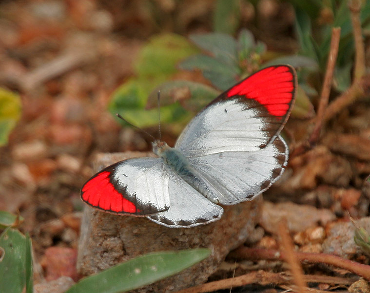 Crimson Tip Colotis danae in Hyderabad , India.